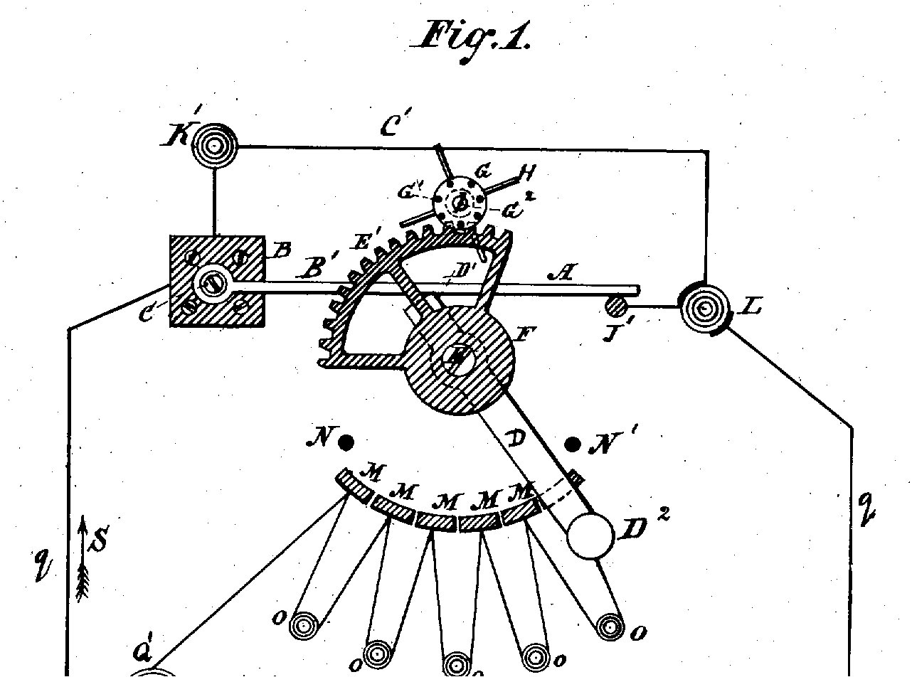 Patent 10,134 drawing of lighting system by William E. Sawyer and Albon Man